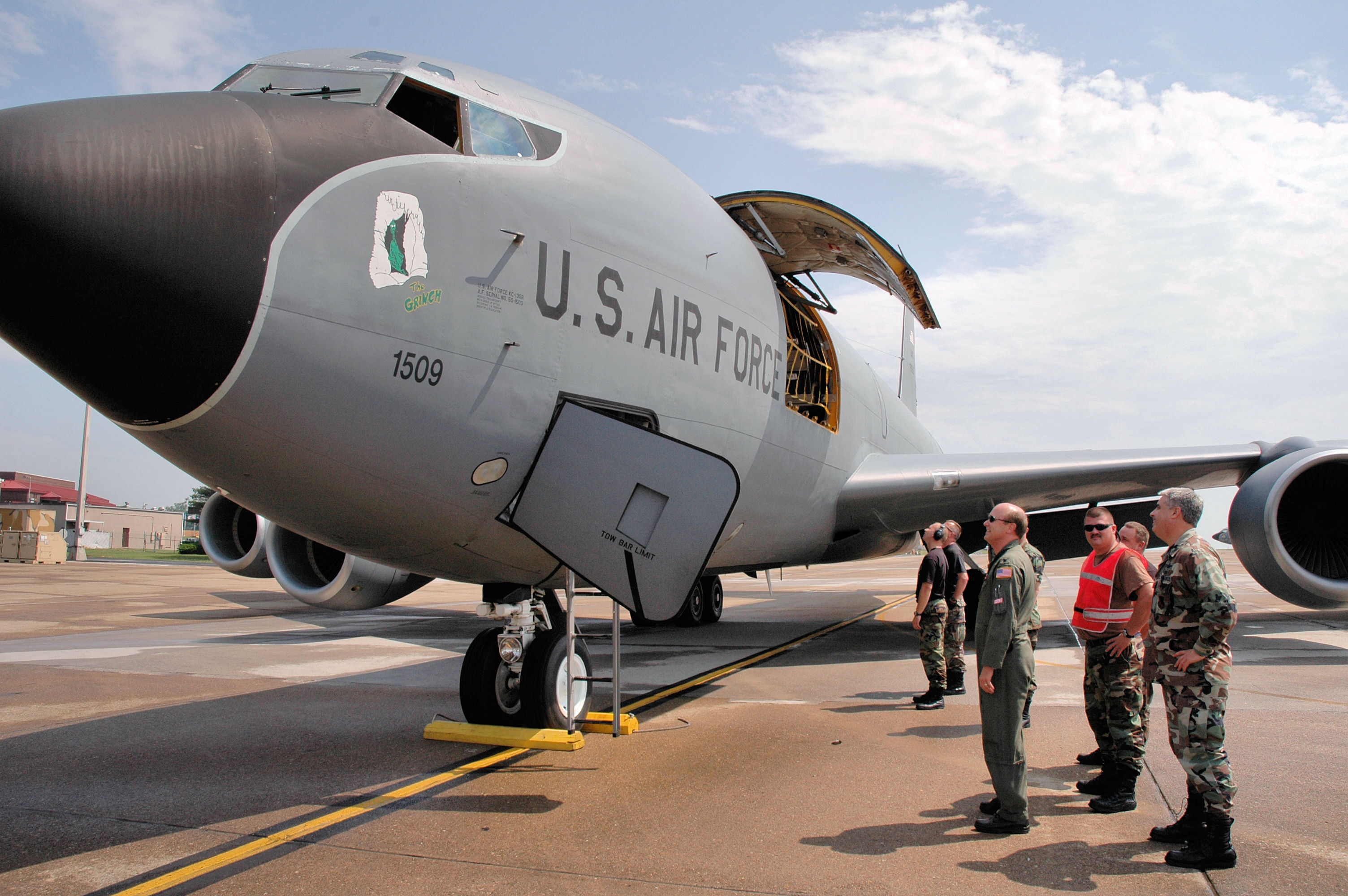 Col. Timothy Dearing, Commander, 134 ARW and Col. Thomas Cauthen, Vice Commander, 134 ARW wait to tour the Wing's first KC-135R to arrive at McGhee Tyson Air National Guard Base. (Air National Guard photo by Tech Sgt. Kendra Owenby, 134 ARW/PA)